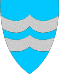 Coat of arms for the municipality of Sola (kommune), Norway.